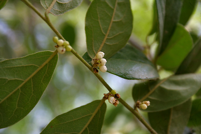 Diospyros chloroxylon in Hyderabad , India.